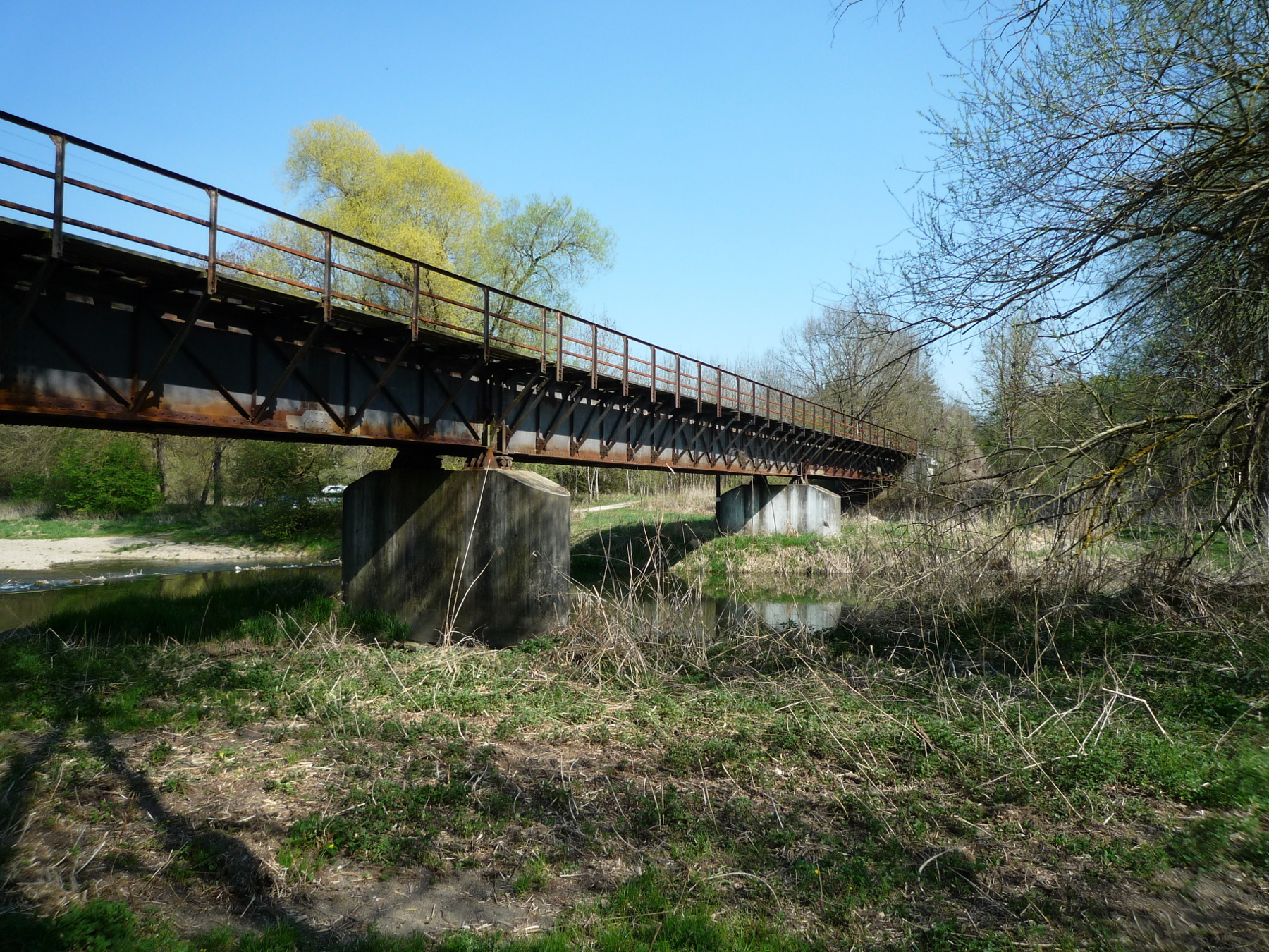 Railbridge over river Amper near Haag an der Amper, Bavaria, Germany